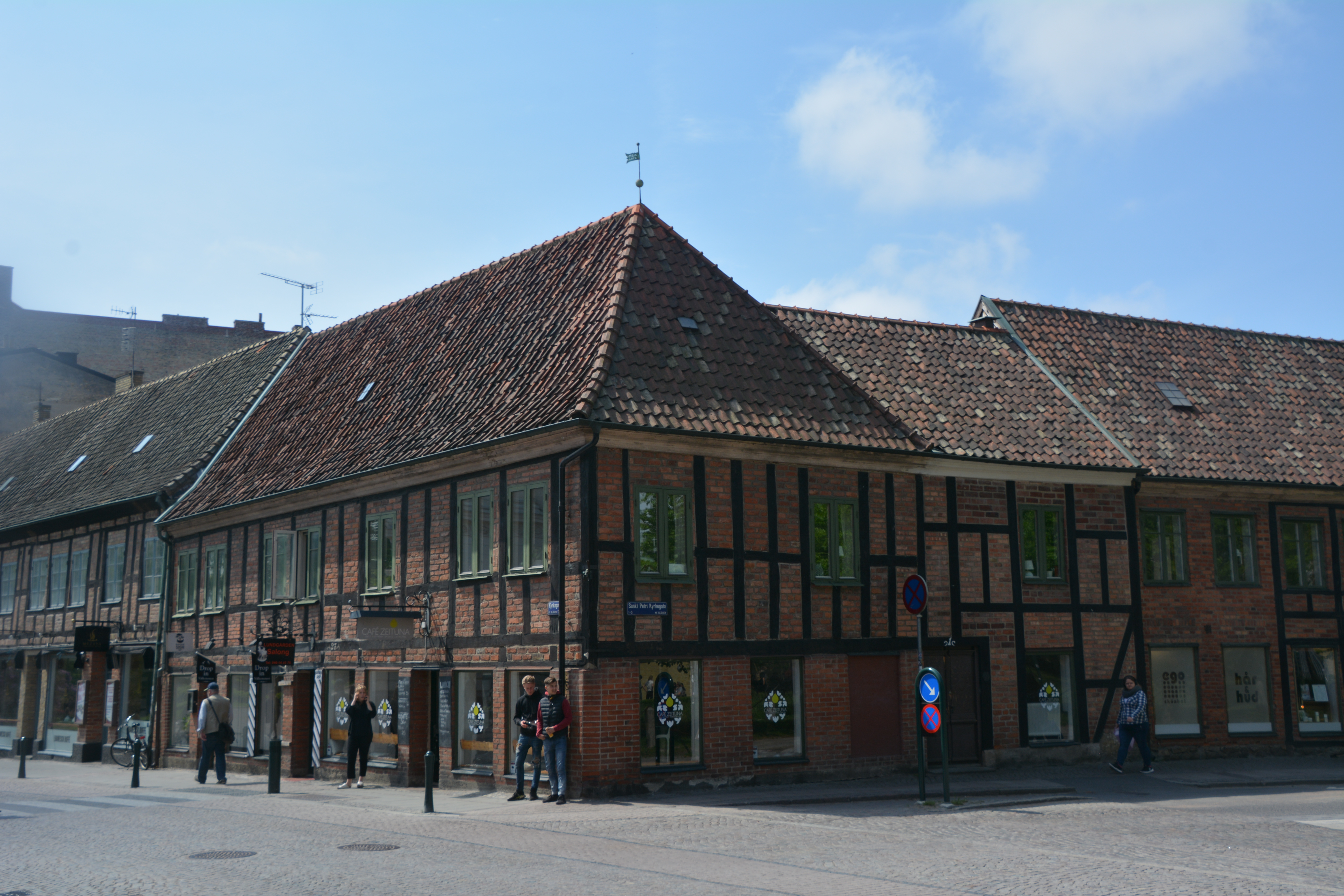 Bergmanska huset, Kyrkogatan 23 in Lund, at the corner of Sankt Petri kyrkogata